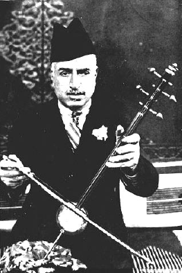 Example of an Iraqi spike fiddle instrument